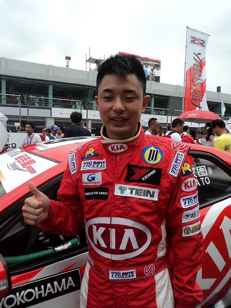 Hong Kong driver Jim Kato during the 2012 China Touring Car Championship race at Zhuhai International Circuit